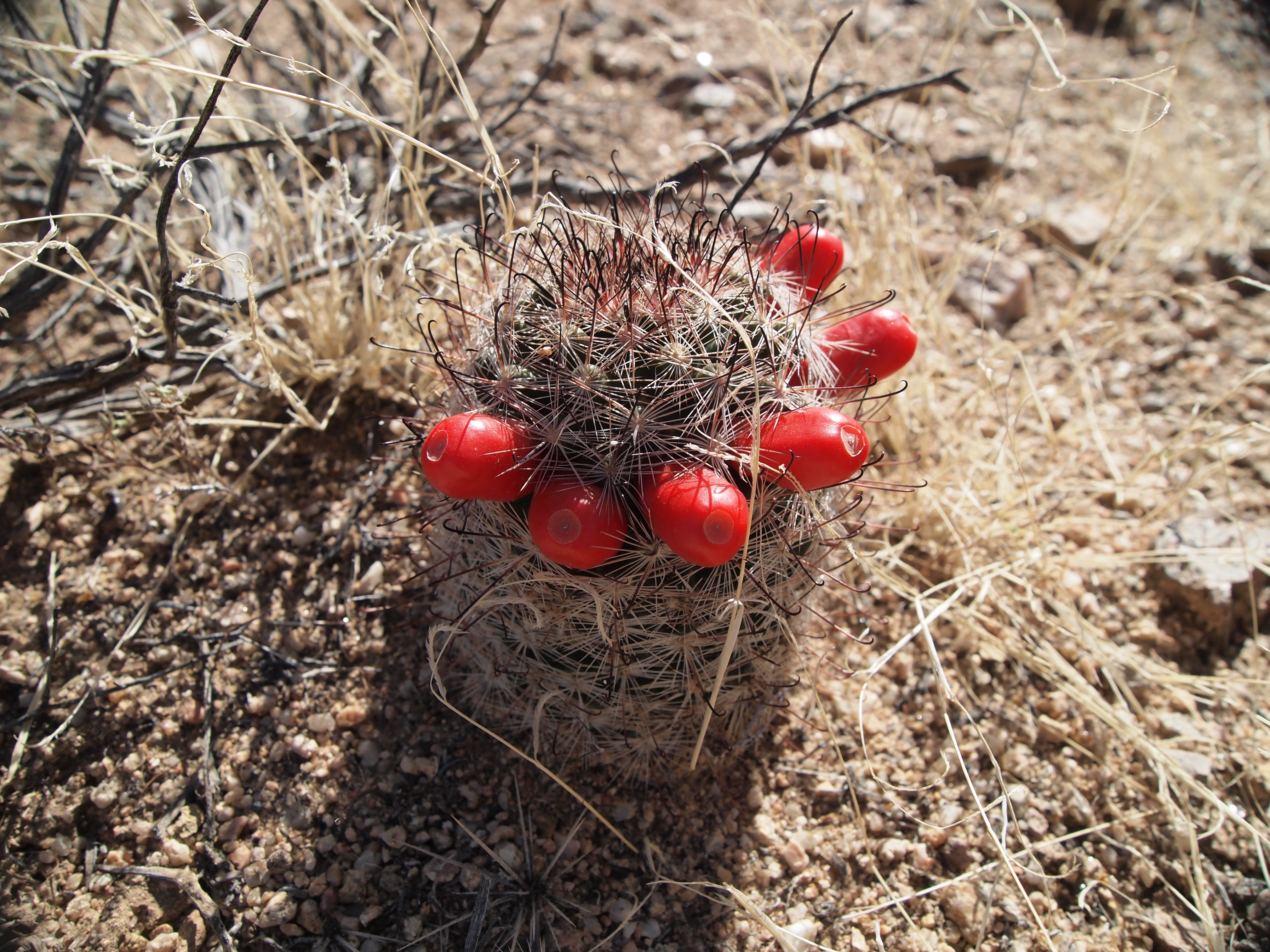 A fruiting cactus (mammillaria tetrancistra) found in the southern section of the Mojave National Preserve.